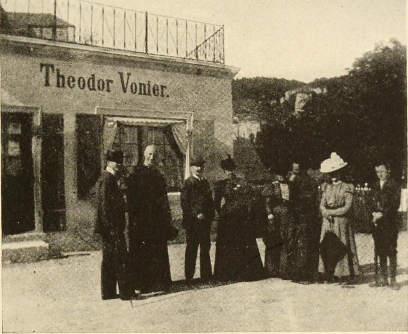 Identifier: eightjourneysabr00rose Title: Eight journeys abroad Year: 1917 (1910s) Authors: Rosengarten, Mary D. Richardson, 1846-1913 Rosengarten, Frank H Subjects: Europe -- Description and travel Algeria -- Description and travel Palestine -- Description and travel Egypt -- Description and travel Publisher: Philadelphia : printed for private circulation by J.B. Lippincott Co. Text Appearing After Image: COUNT SALIS. PATER NICOLAS, HEAD OF THE MONASTERYBENEDICTINE ORDER AT BEURON